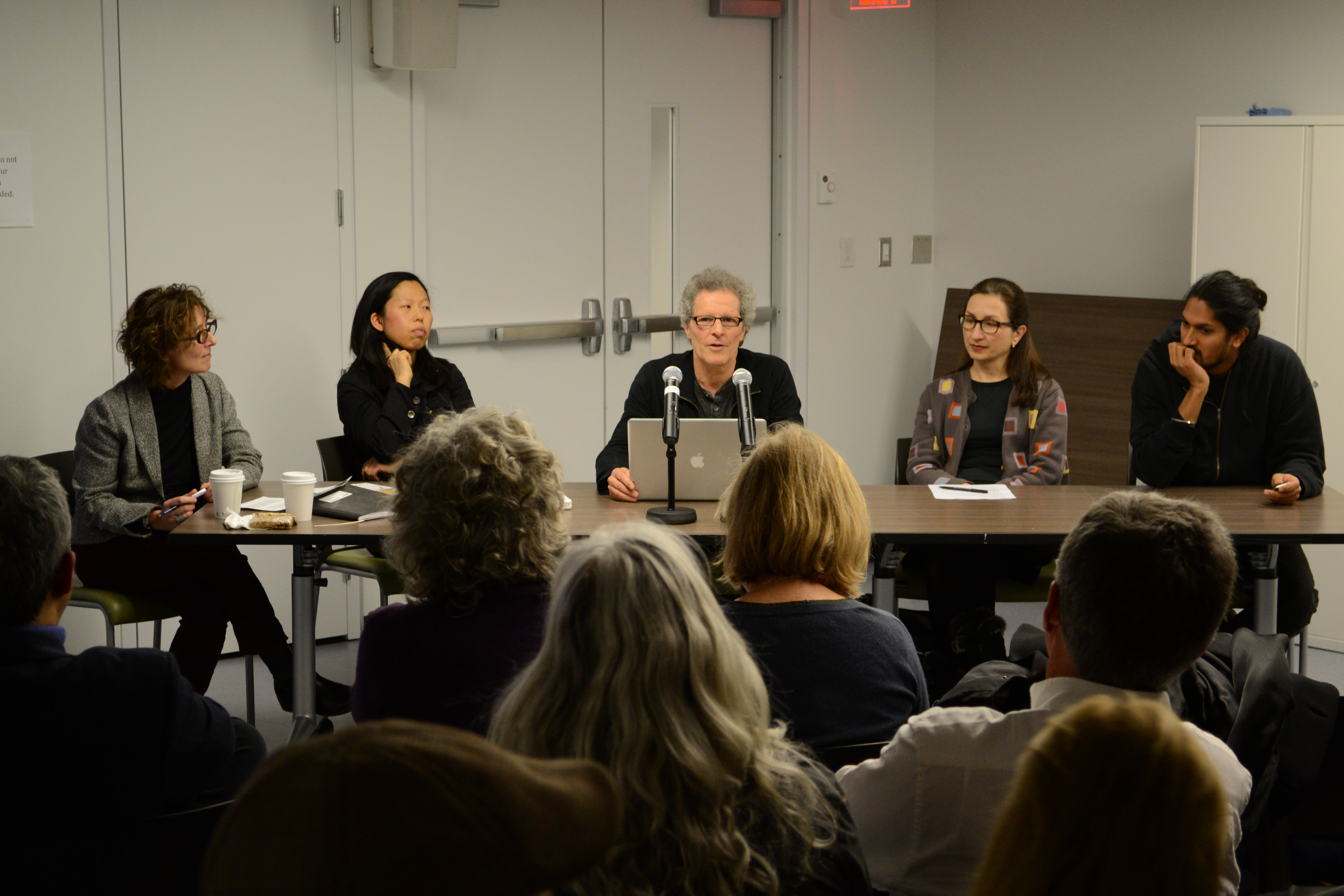 Putting Your Docs in a Row panel discussion, organized by York University.